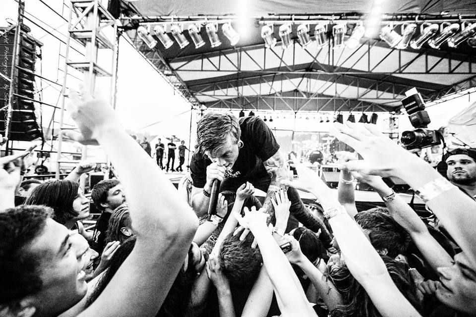 Metal